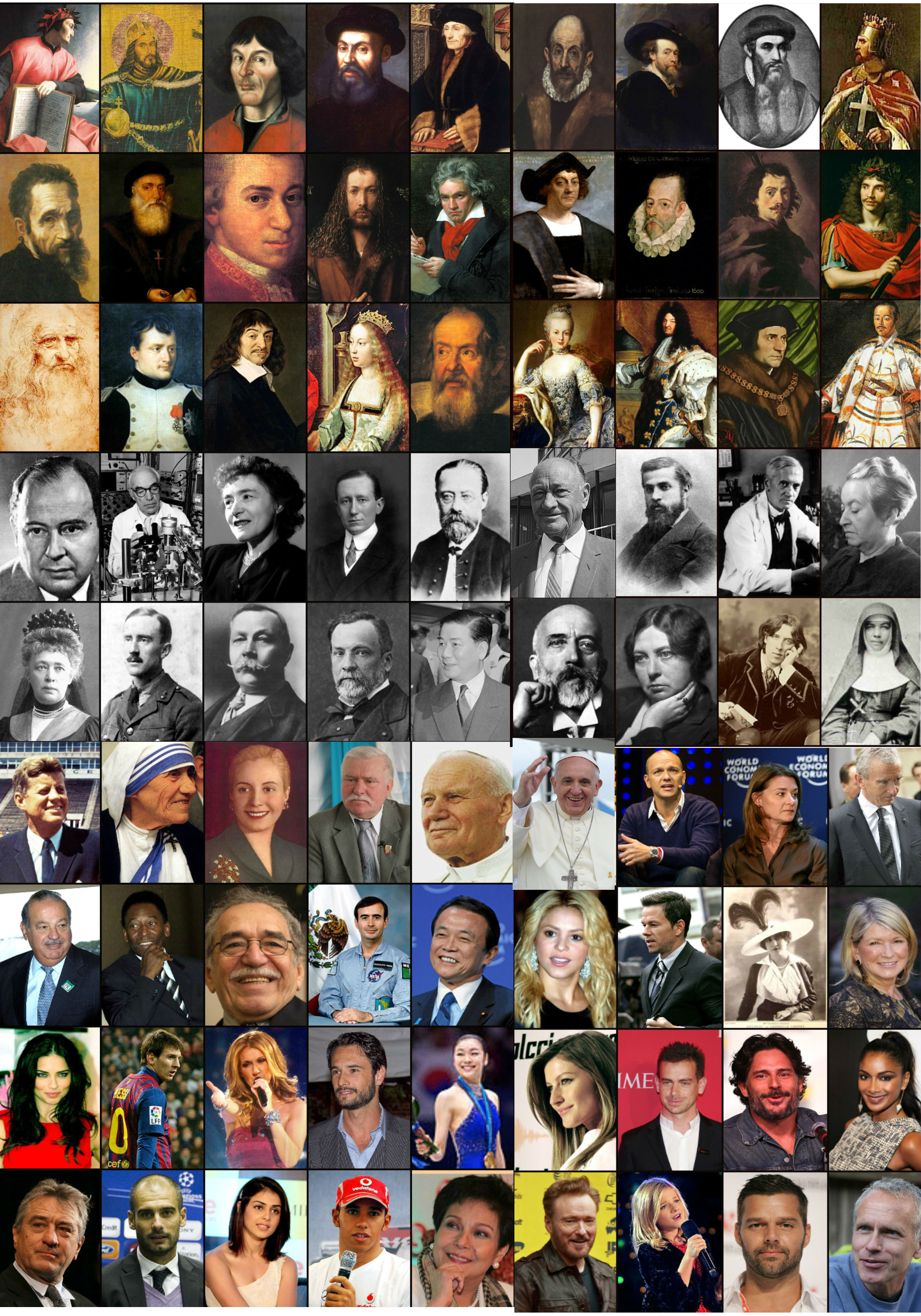 Collage of photos of 81 Catholic Christians known figures - Anyone can use these original photos themselves among others and make another collage of (Christians) themselves or remix as they wish, as long as they give the correct source and usage/Copyright given. Dont delete the photos, if one becomes unusable due to copyright, please dont delete, just replace the photo or i will.